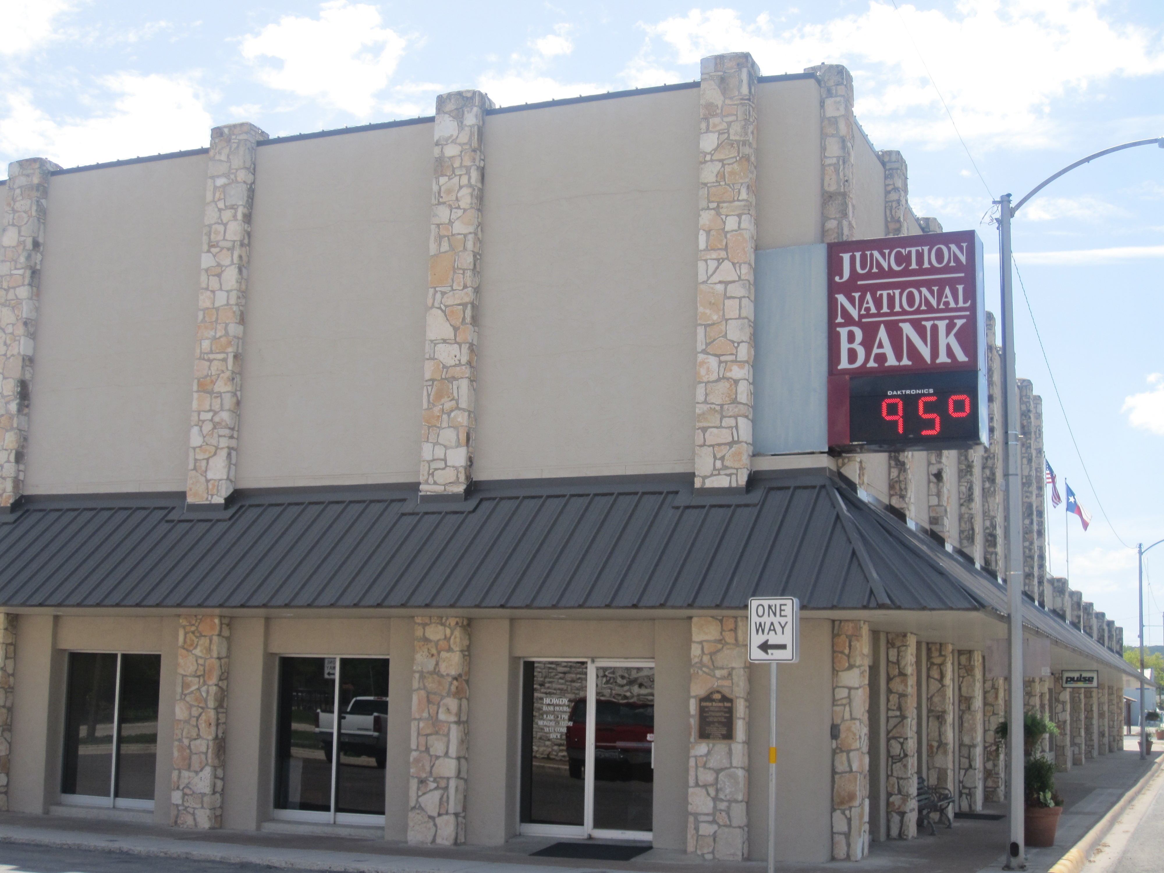 I took photo with Canon camera in Junction, TX.